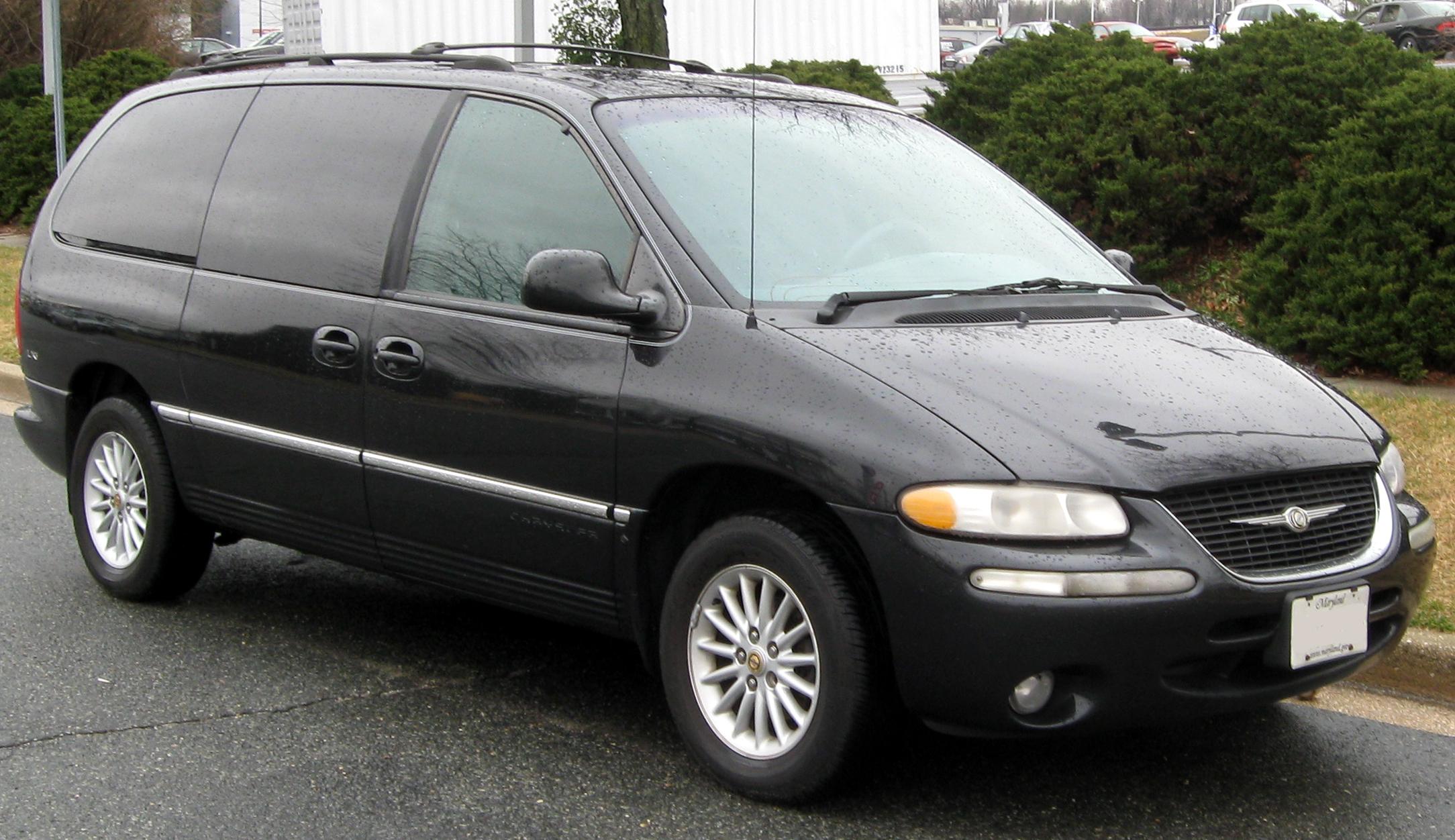 1996-1997 Chrysler Town & Country photographed in Silver Spring, Maryland, USA.